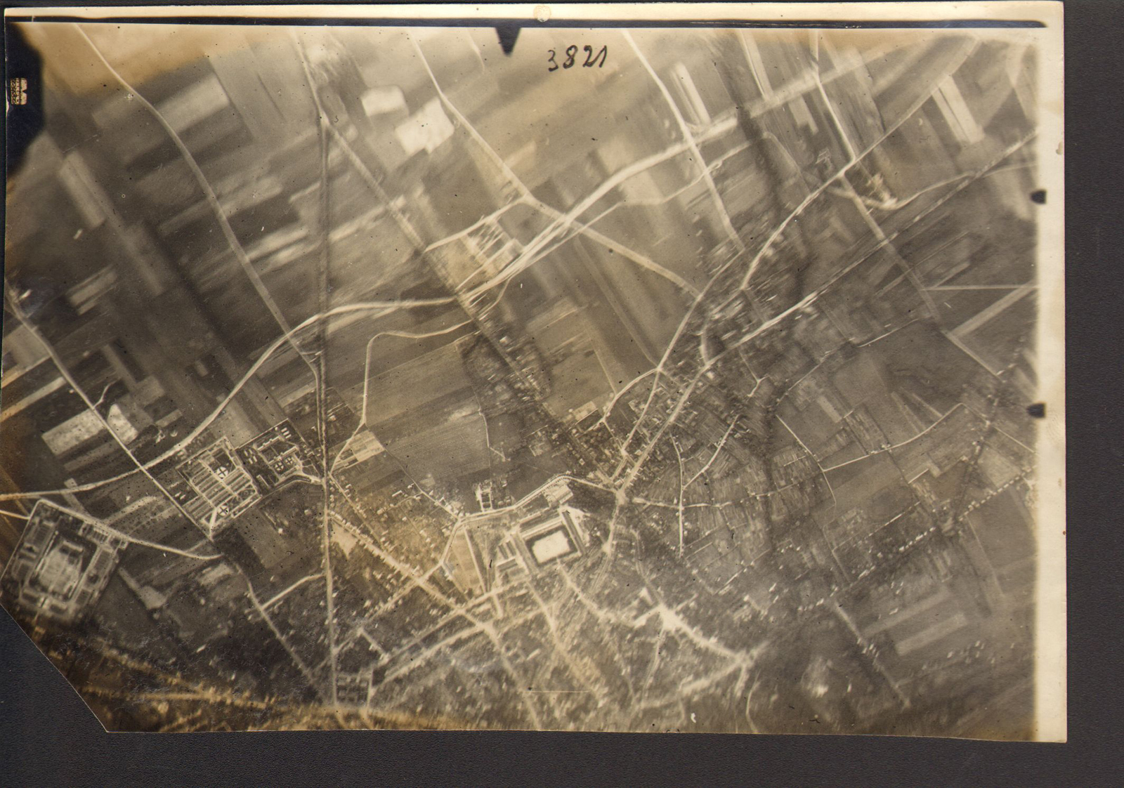 Pictures of Northern France, made during reconnaissance flights May to August 1918 (during WWI). The pilot died September 1918.